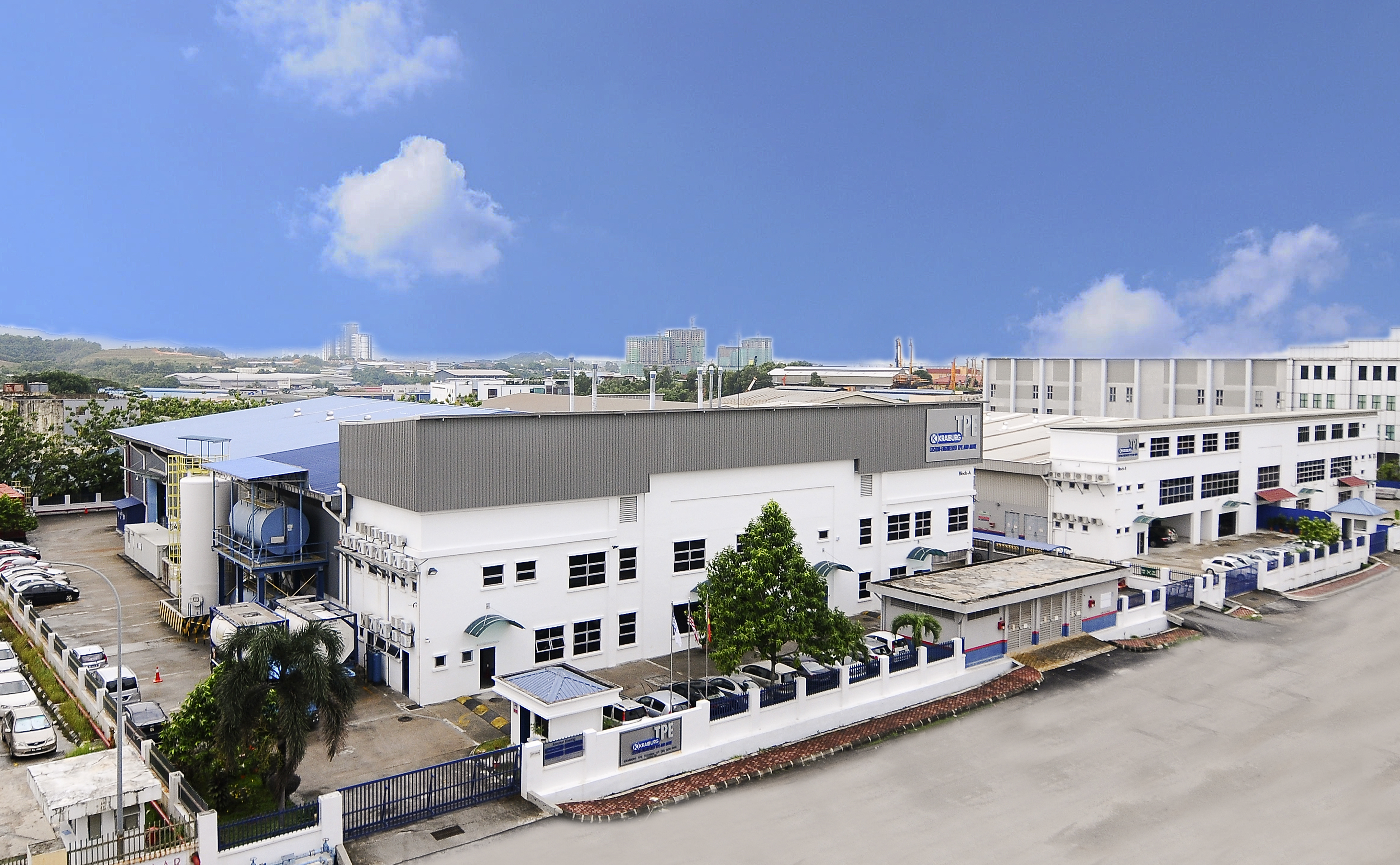 KRAIBURG TPE production site in Kuala Lumpur, Malaysia